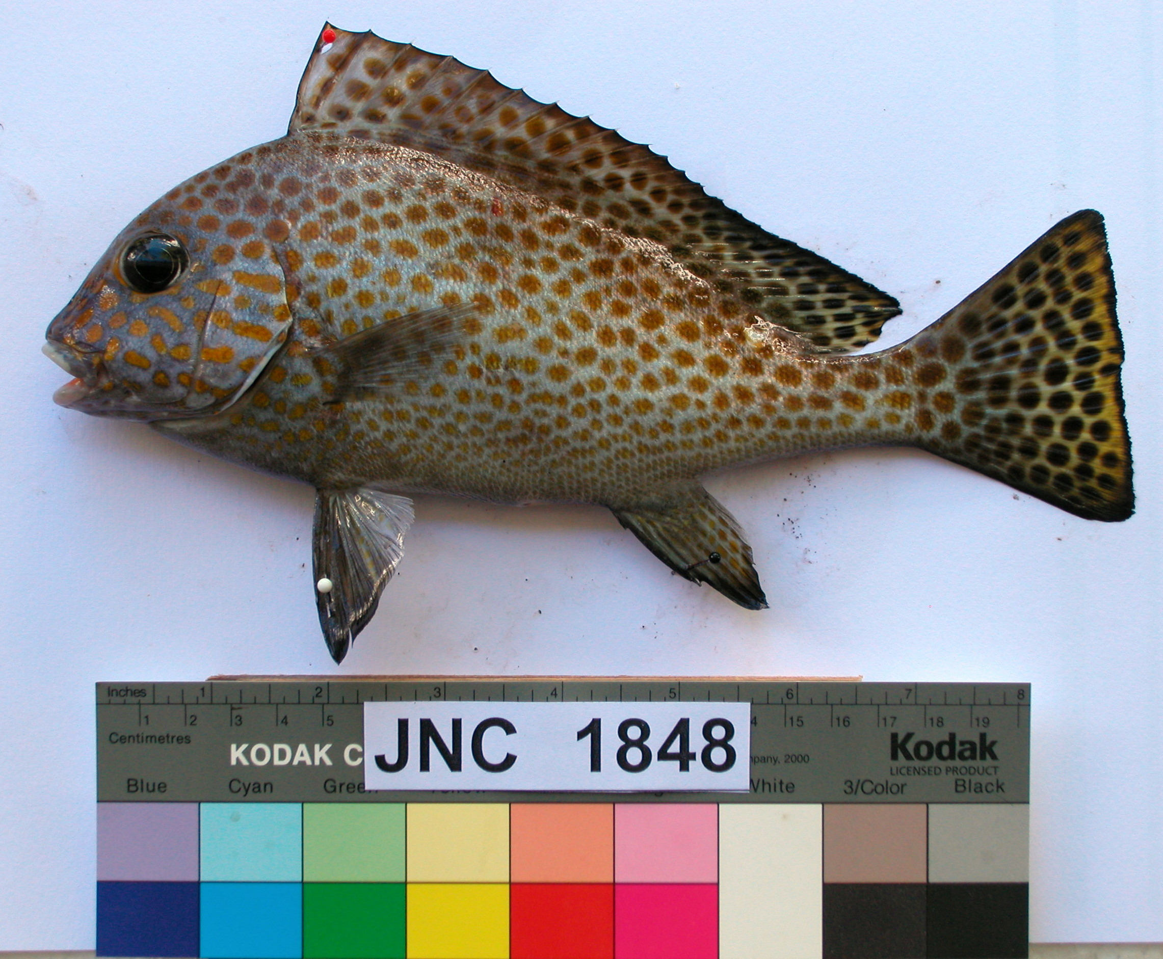 Diagramma pictum. Number MNHN JNC1848. Locality: off Nouméa, New Caledonia. Date 101-06-2006. Fork Length 240 mm, Weight 178 g.